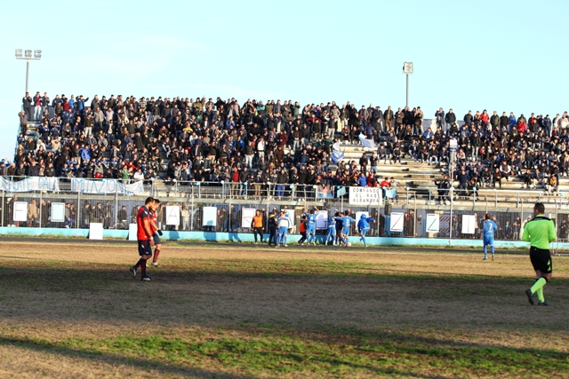 Il derby del 9 Gennaio 2016